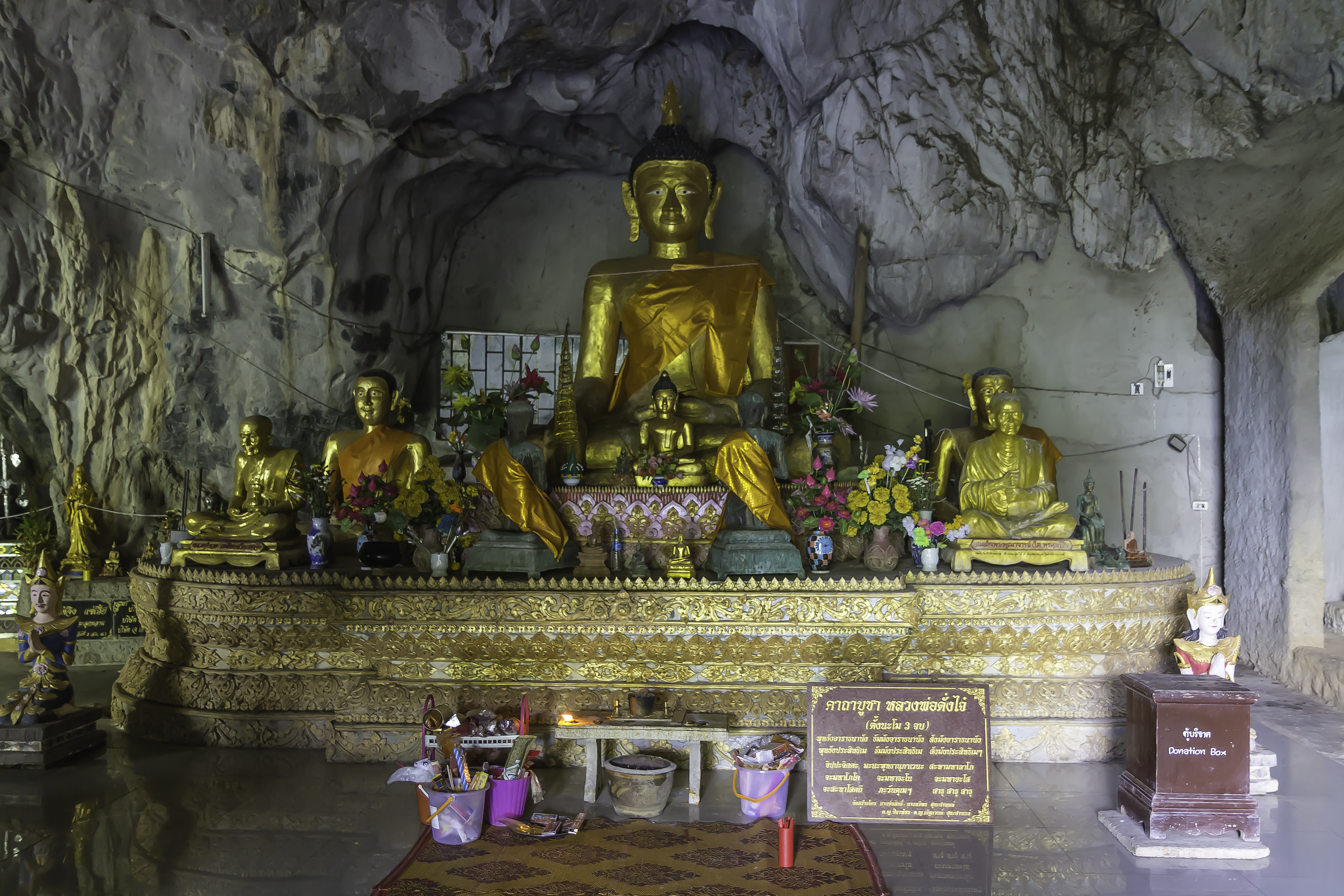 Wat Tham Phra at the Kok river opposite the Chiang Rai Beach, Chiang Rai, Thailand